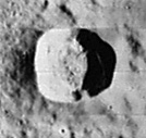 Bouguer crater